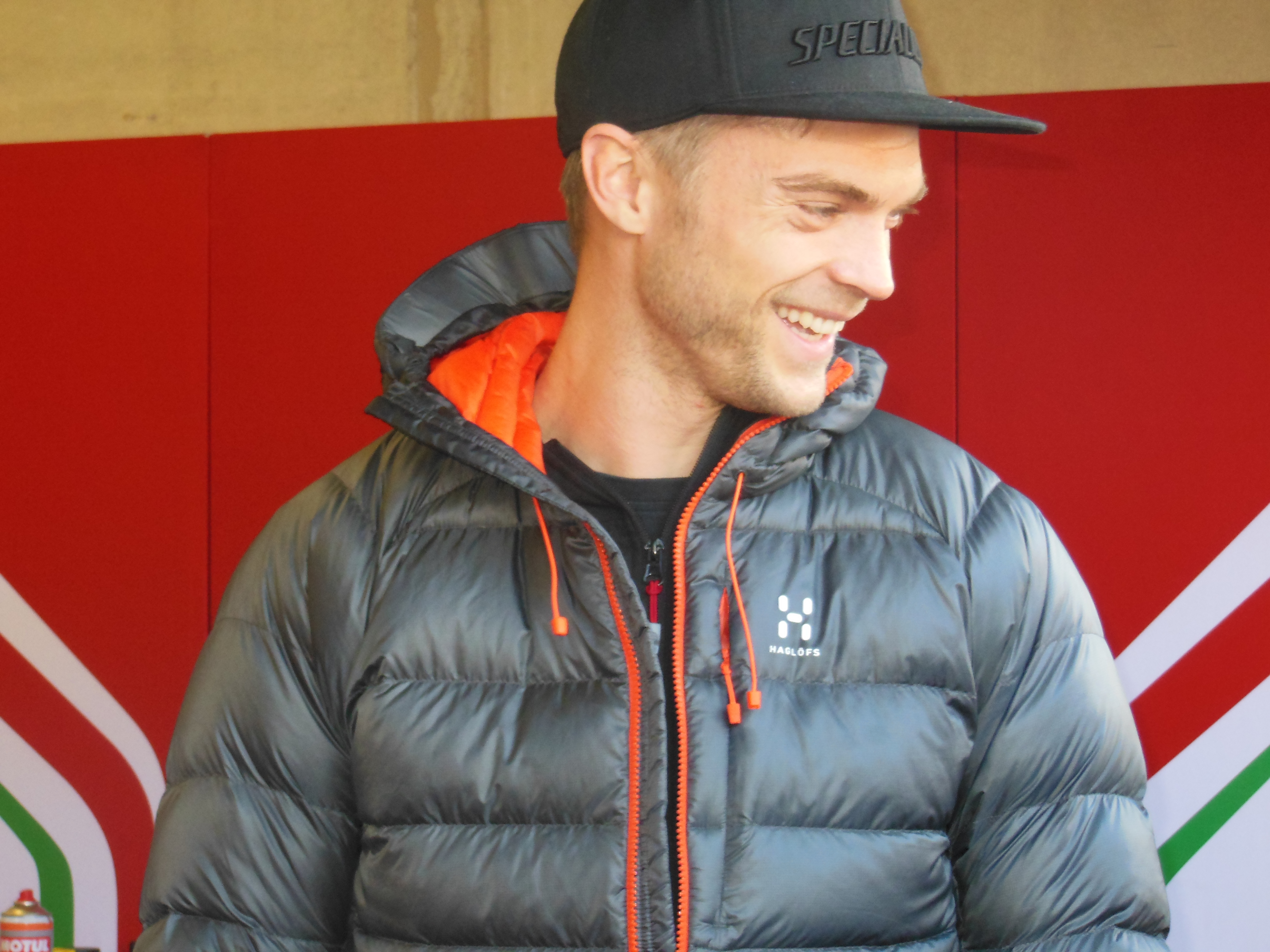 Ich shoot this Picture at WSBK in Assen 2016